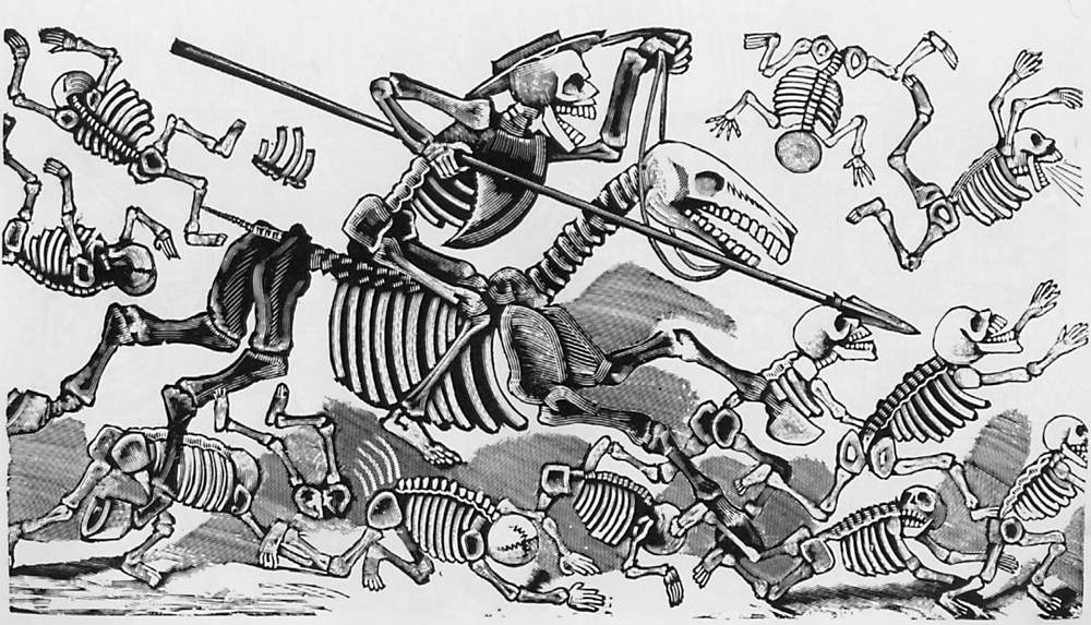 Don Quixote, shown as a skeleton